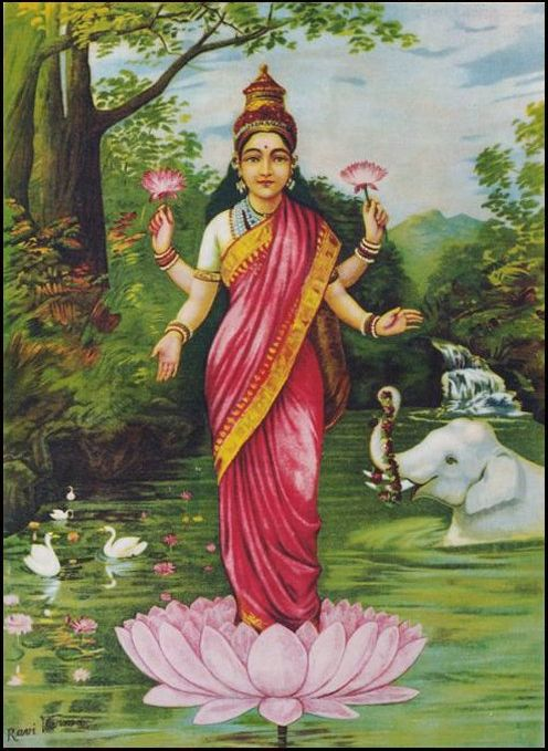 Lakshmi.